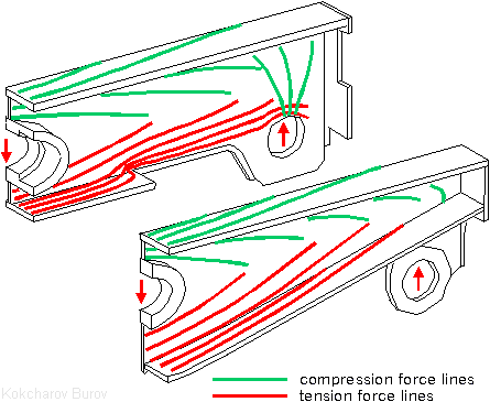 Structural optimization by force lines analysis in 2 variants of a lifting crane balancer